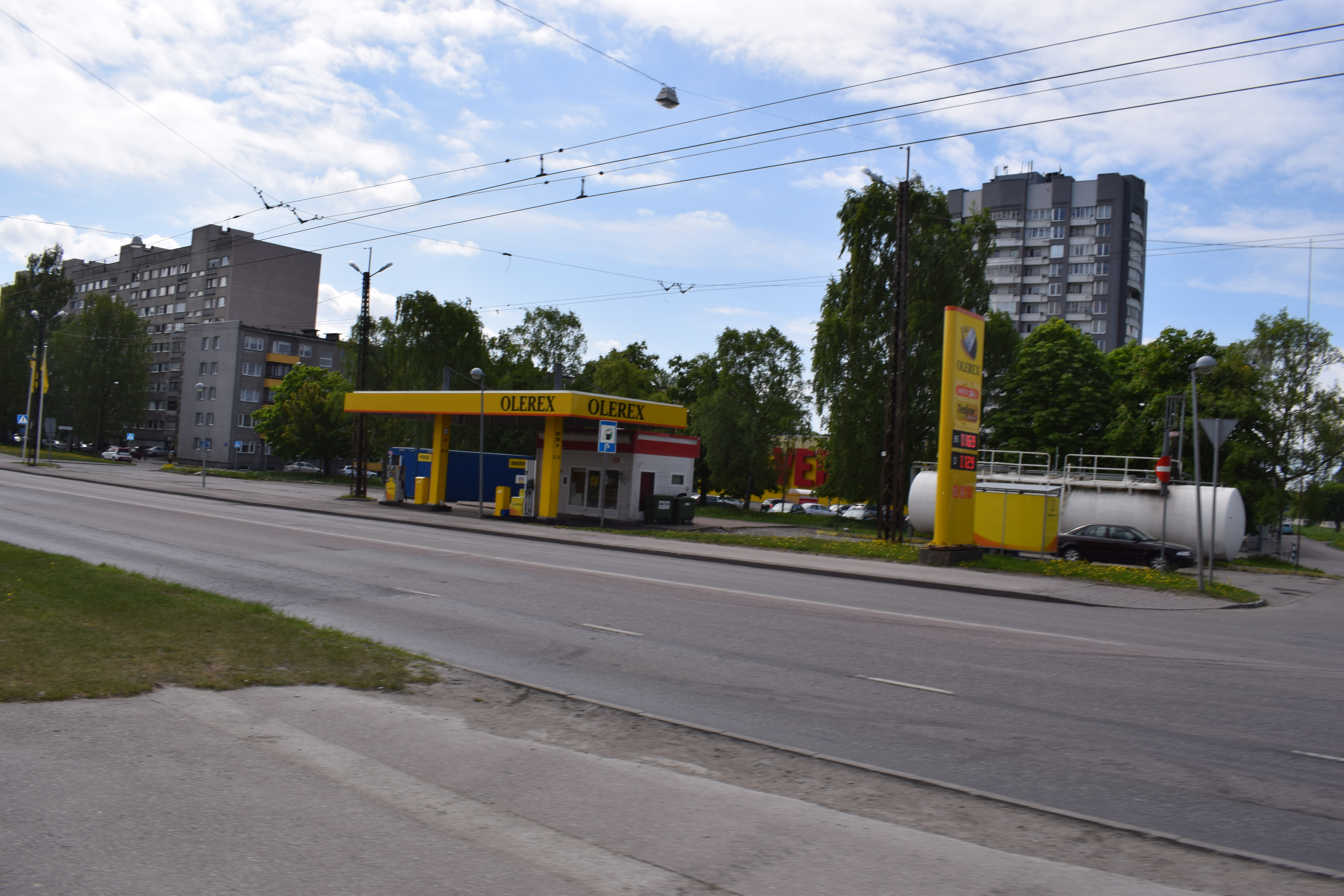 Sõle 51B Olerex